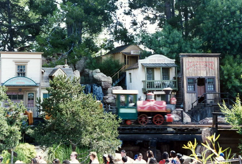 Thunder Mountain Railroad 1998 Disneyland Taken by Ellen Levy Finch (User:Elf)